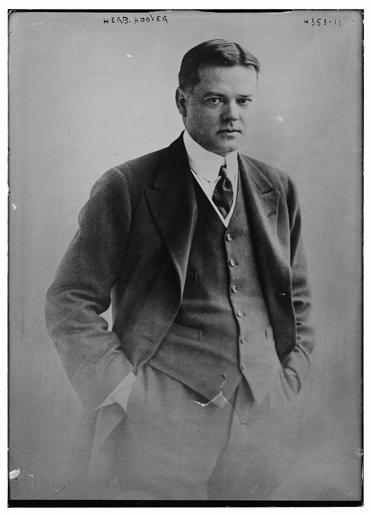 Herbert Hoover in 1917